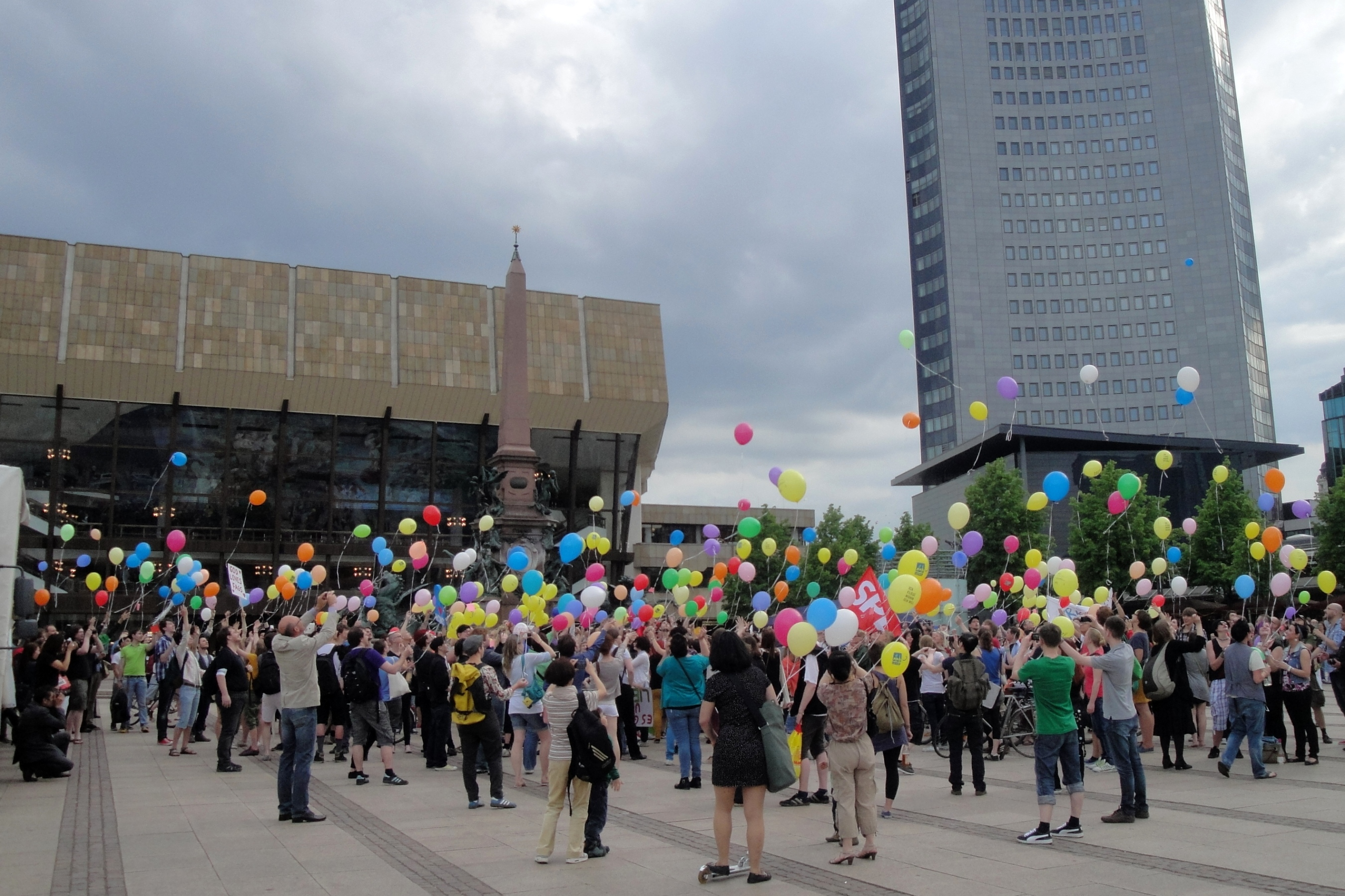 RainbowFlash 2013 in Leipzig (Germany)